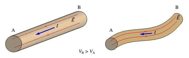 condutor x